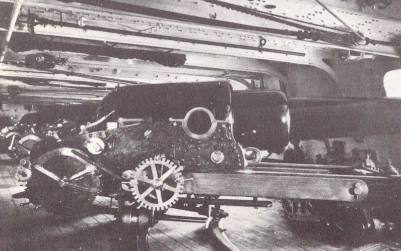 Photograph of a 10-inch (254 mm) 18-ton Mk I rifled muzzle-loading gun aboard the British central battery ironclad HMS Sultan.